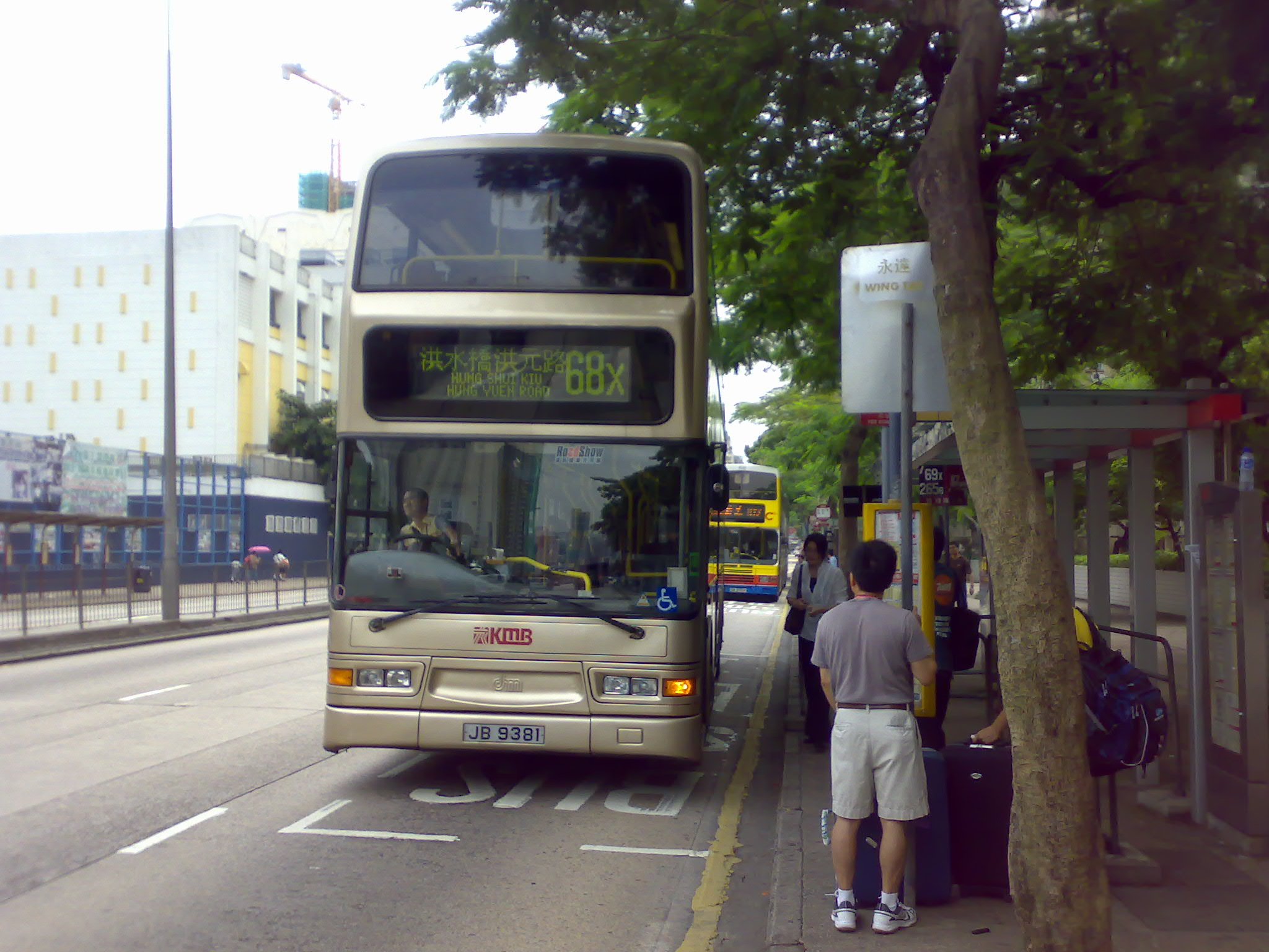 This is a picture of a bus on the Kowloon Motor Bus Route 68X at a bus stop on Cheung Sha Wan Road. The photograph is taken by my Nokia N73 camera phone.